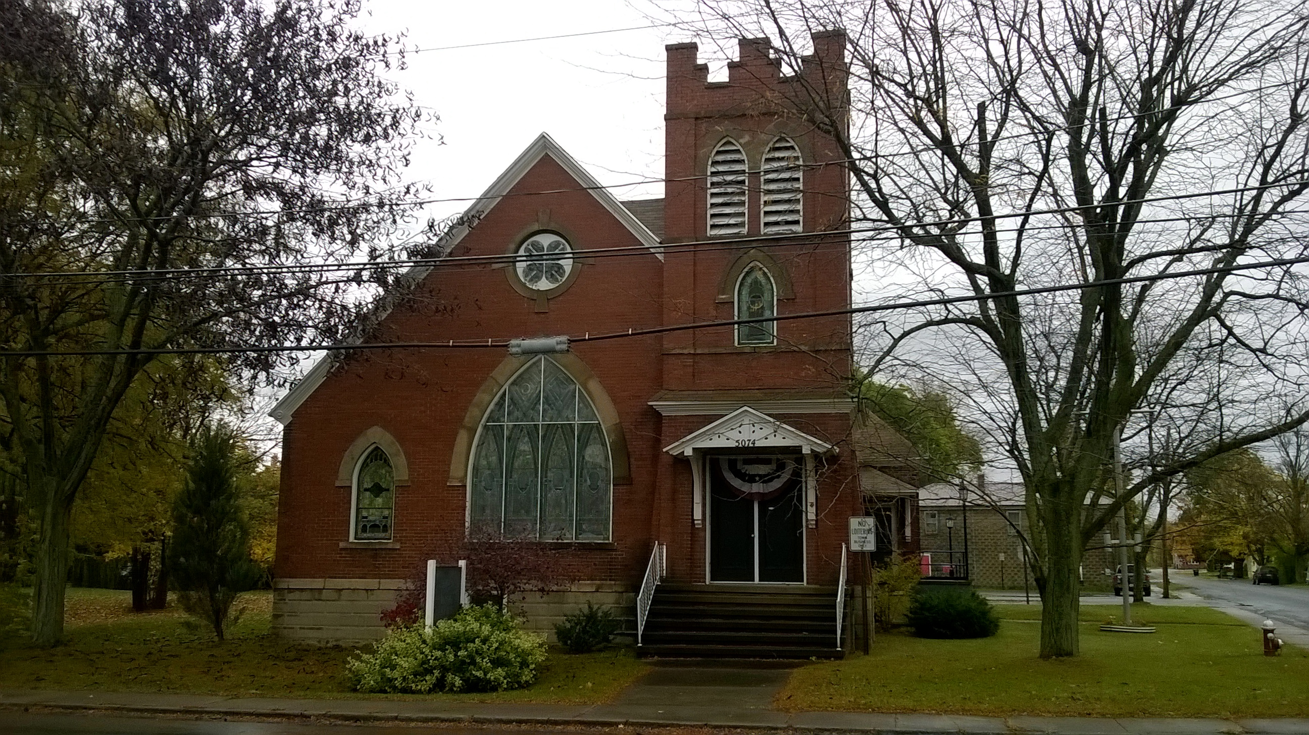 Town Hall of Rose, New York in the hamlet of North Rose